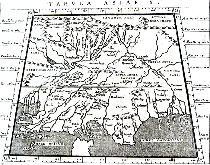 Ptolemy's map of India within the Ganges (India intra Gangem), his 10th map of Asia (Tabula Asiae X), as reconstructed by Girolamo Porro